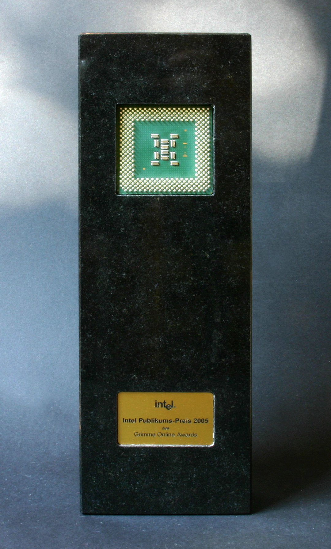 Intel Publikumspreis (audience award) of Grimme Online Award 2005, for German Wikipedia author: Elke Wetzig (elya) date: 2005-10-16